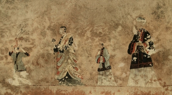 Grand procession